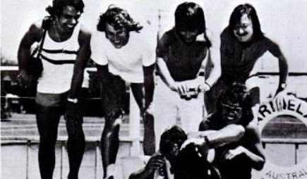 Photo of the band Vanity Fare from a Dick James Music company ad.